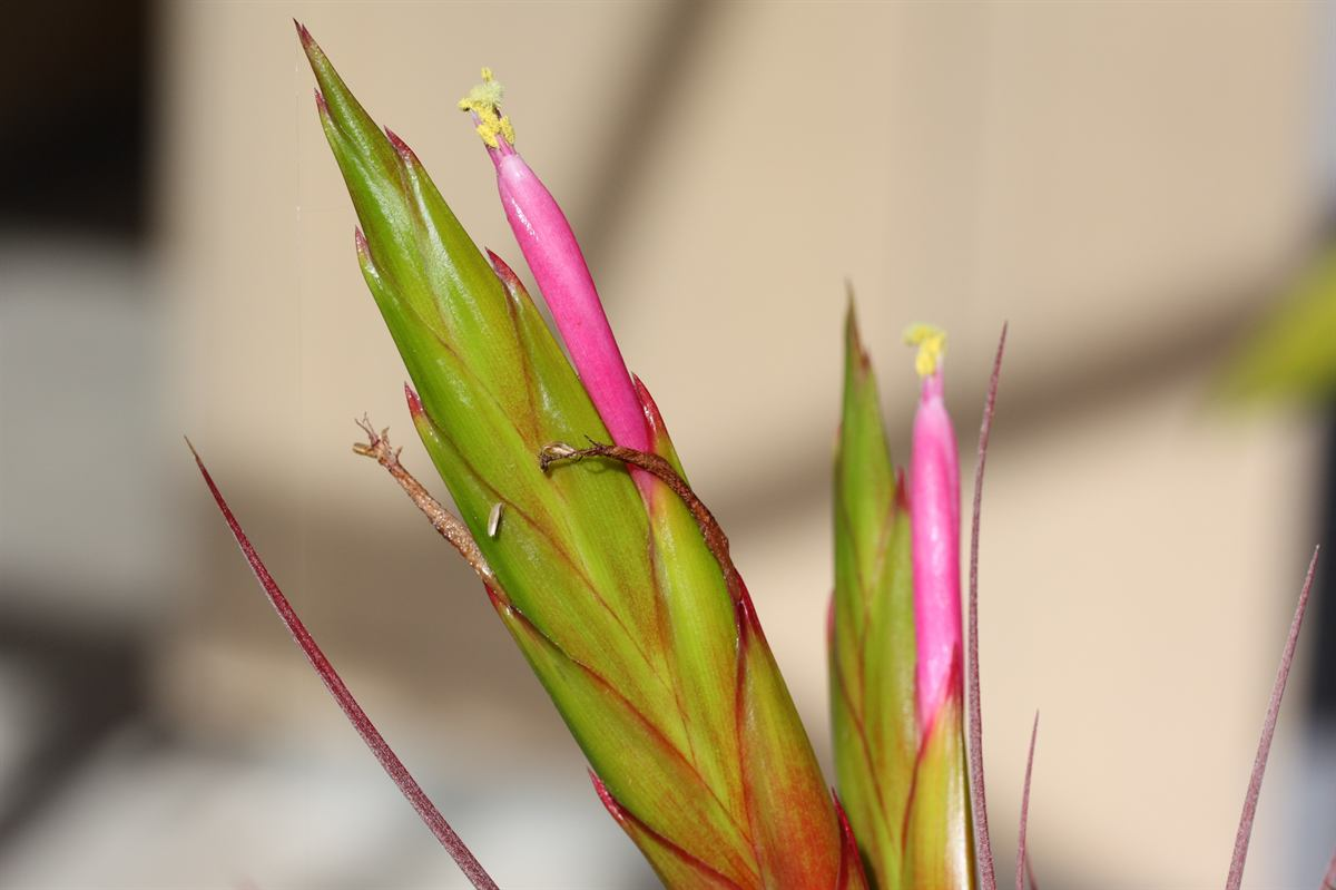 Tillandsia concolor inflorescence